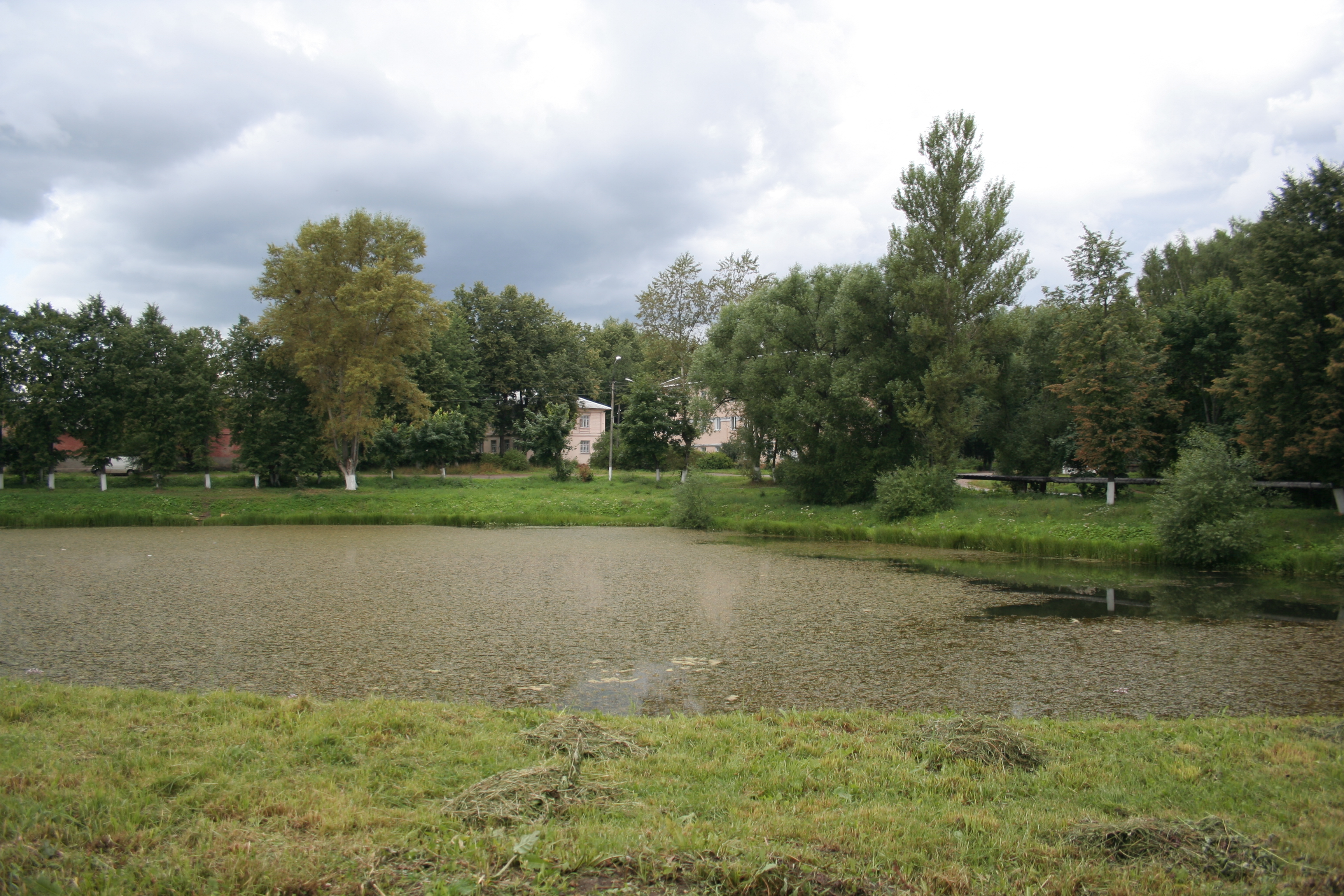 A pond in the center of Gavrilov-Yam, Yaroslavl Oblast, Russia